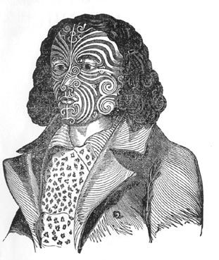 Portrait of Barnet Burns, an Englishman tattooed by the Maori of New Zealand.